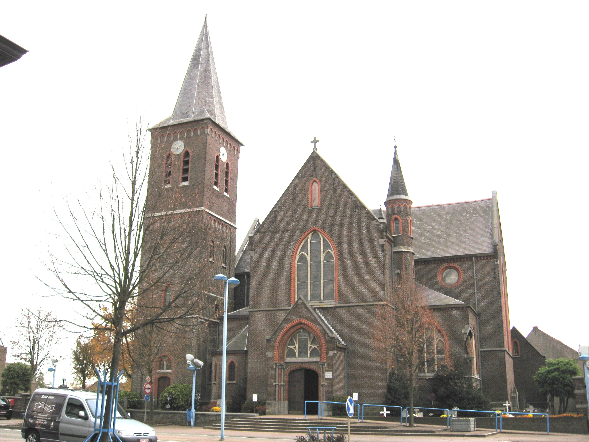 Church of Saint Servatius in Ophoven, Kinrooi, Limburg, Belgium